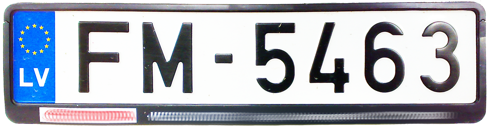 Latvian EU vehicle registration plate